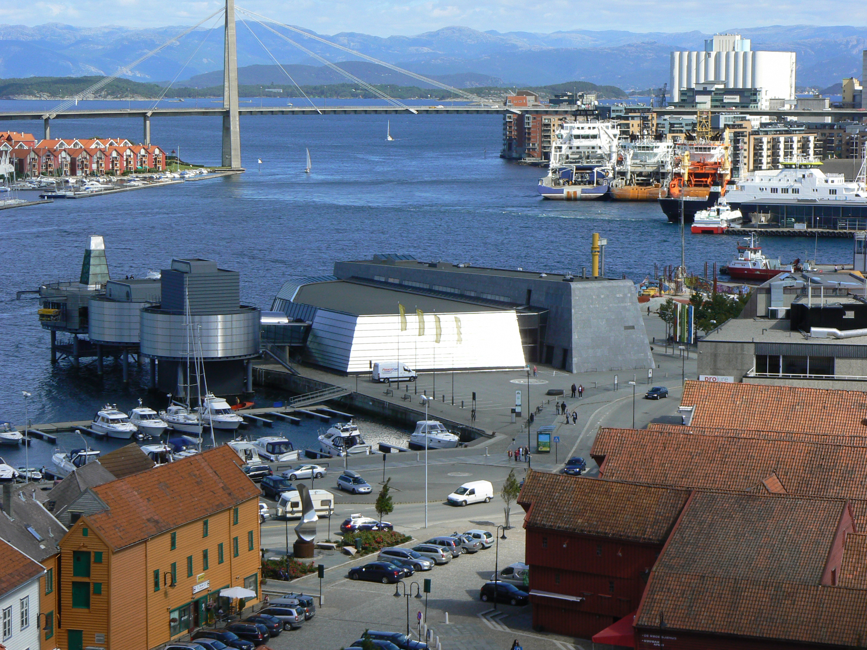 The Museum for Oil at Stavanger